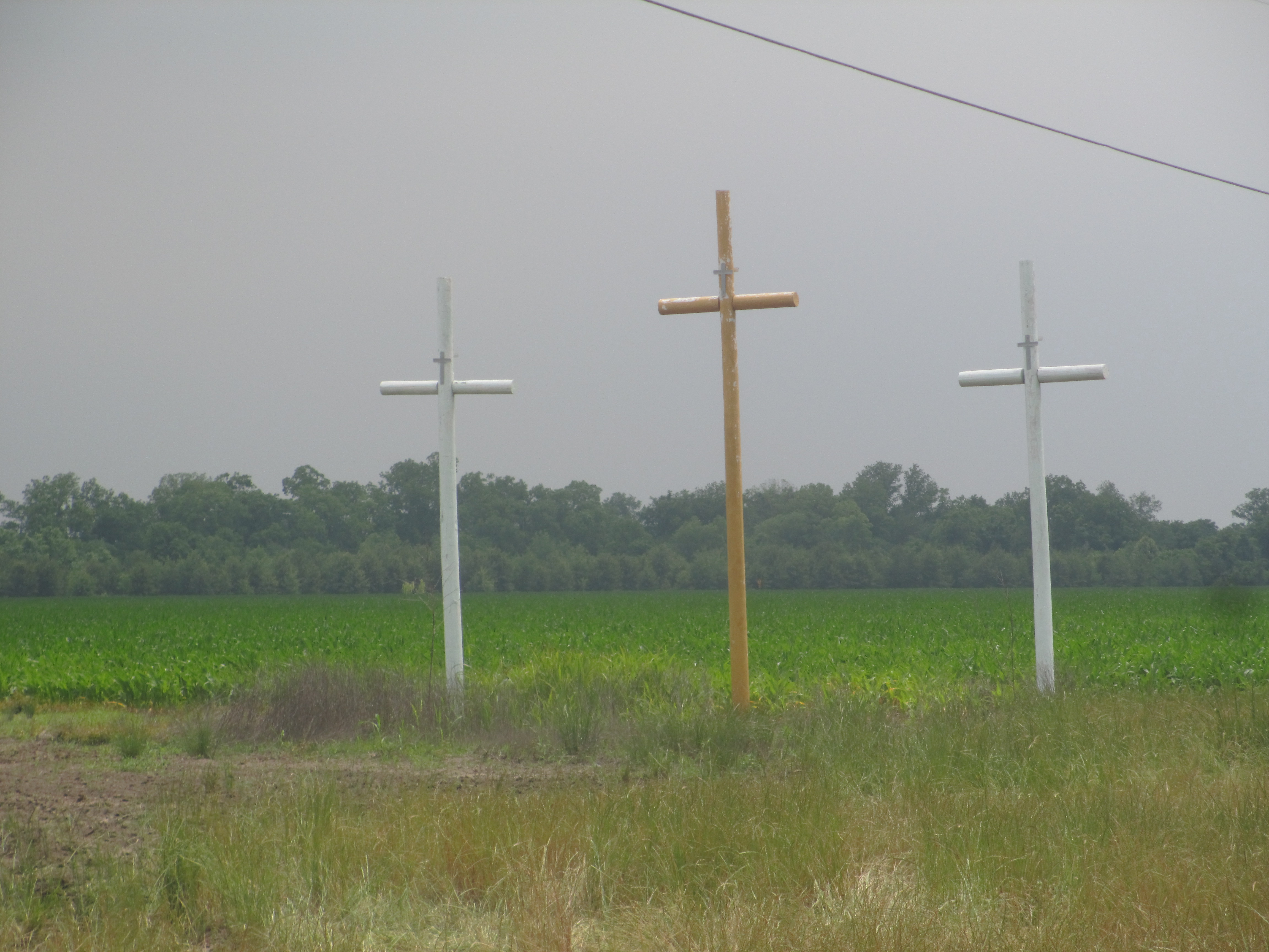 I took photo of three crosses off U.S. Highway 65 in Madison Parish, LA, with Canon camera.